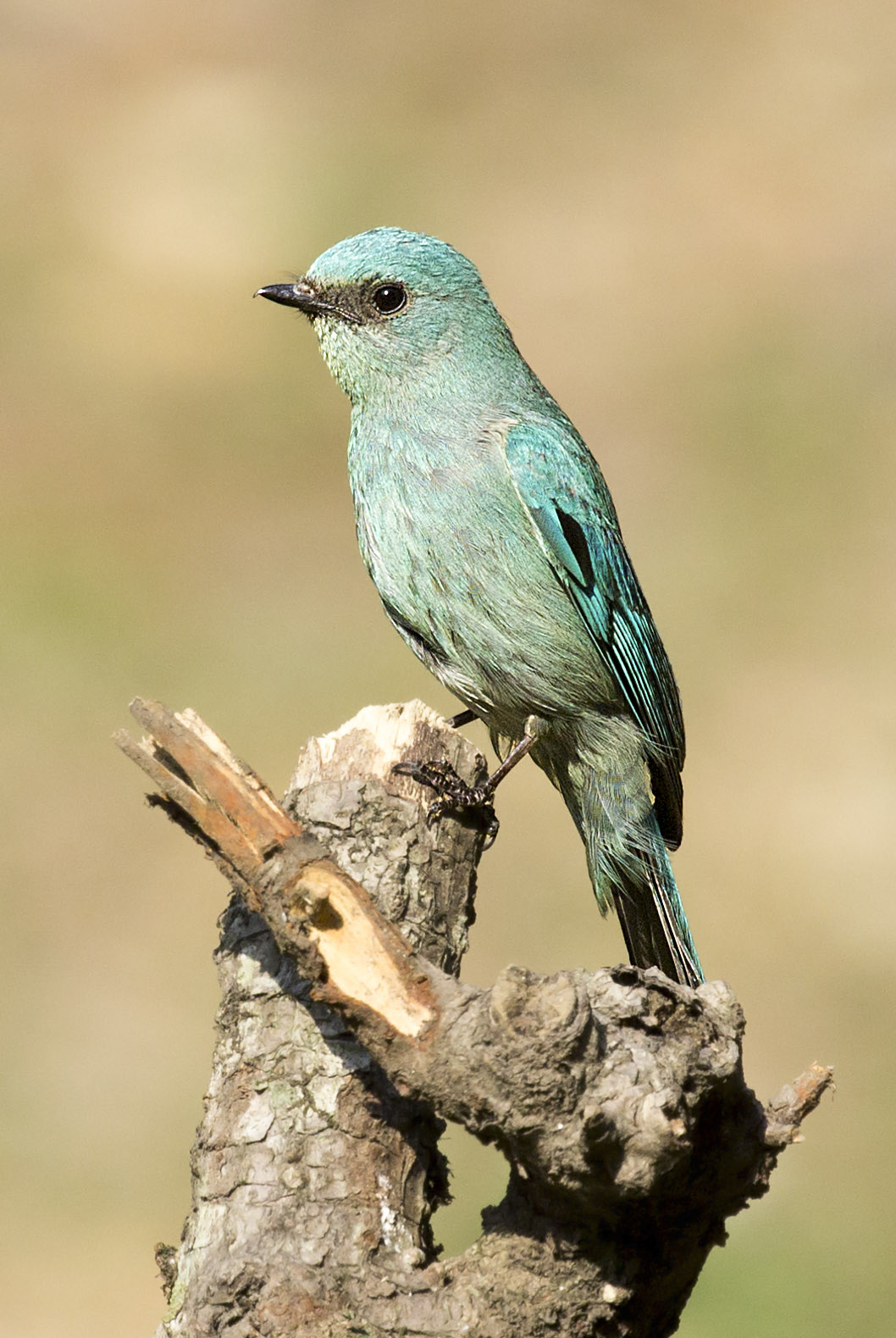 A Verditer Flycatcher Shows off its vibrant beauty.